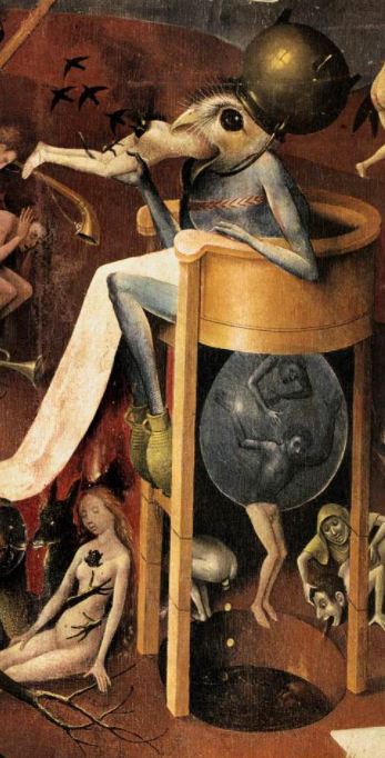 Hieronymus Bosch - Garden of earthly delights (Detail of the right panel) - The Devil swallows a damned and defecates another one